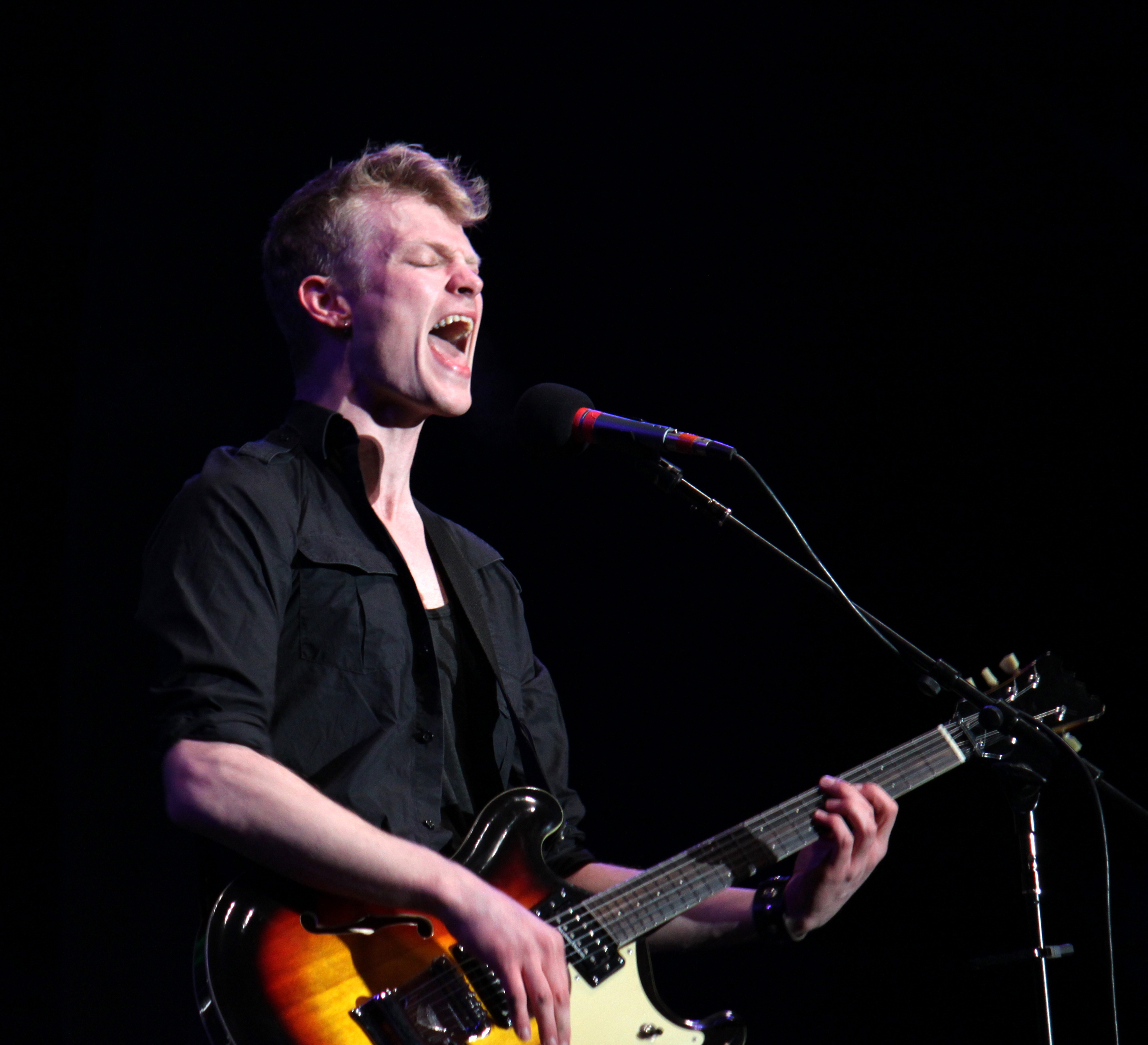 Ryan Guldemond, Mother Mother